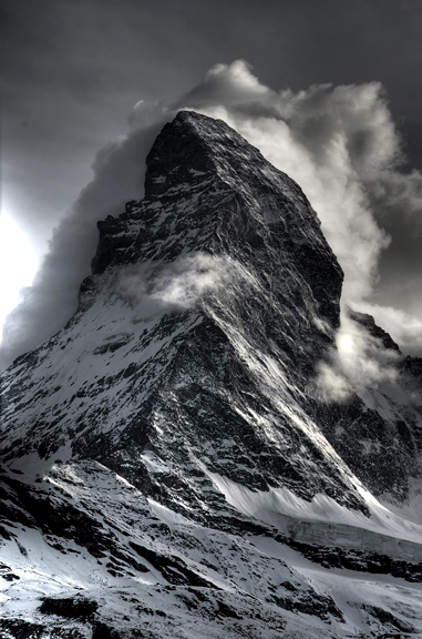 Matterhorn